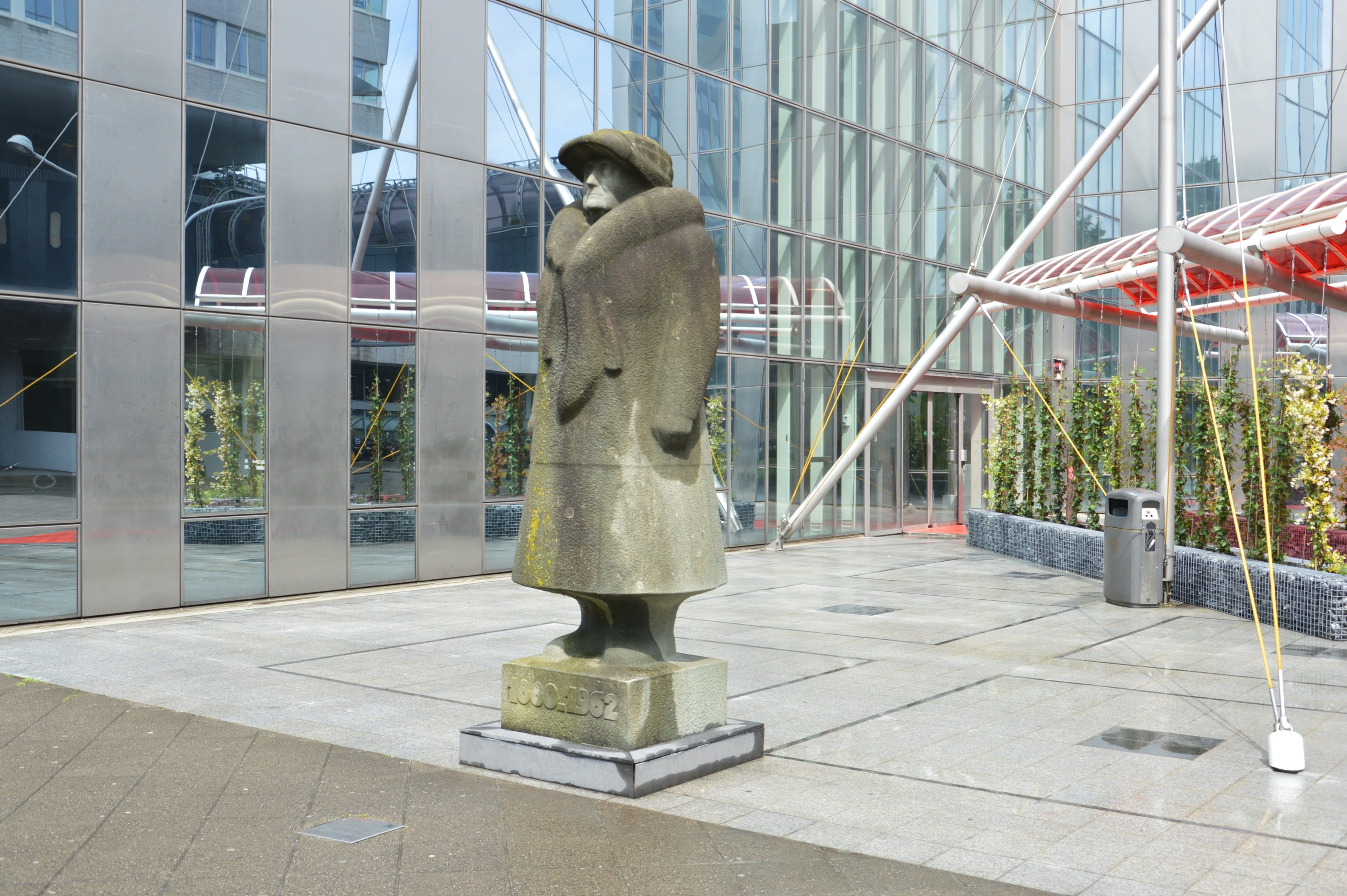 Statue of (former) Queen Wilhelmina near the World Fashion Centre, Amsterdam, the Netherlands.